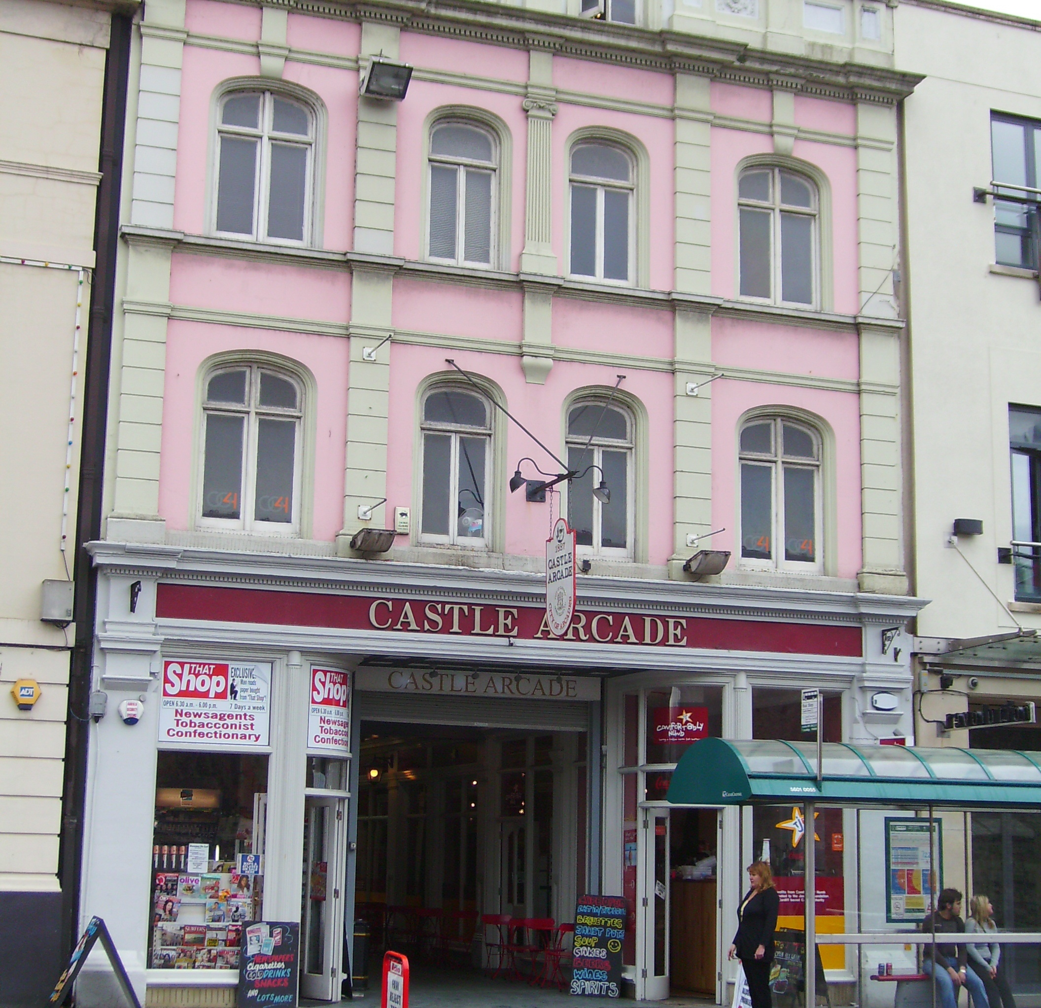 Castle Arcade, Castle Street, Cardiff, Wales.